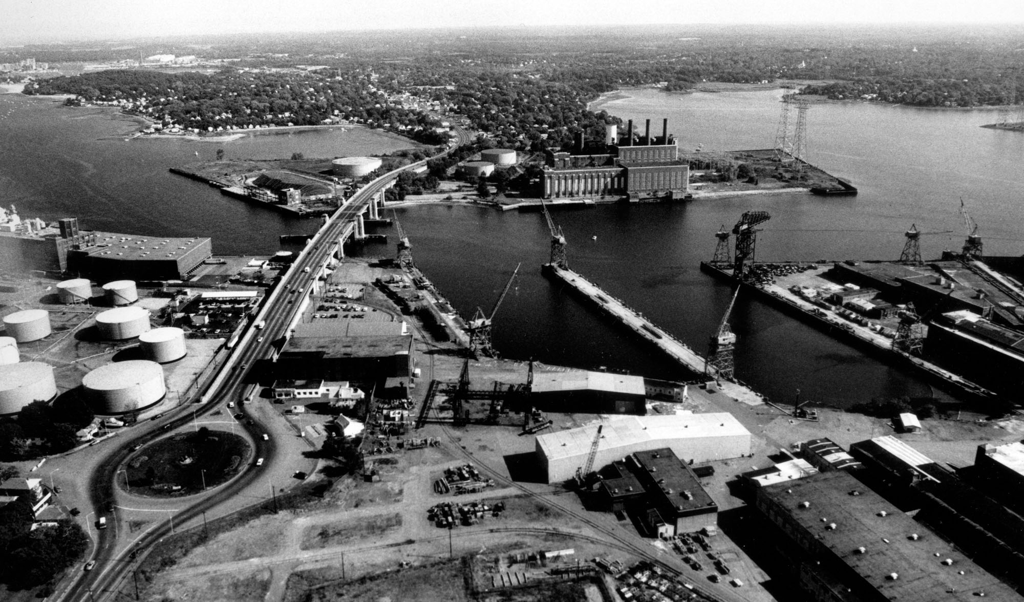 Aerial view of Weymouth Fore River. Weymouth Fore River (before 1965): Weymouth Fore River stretches for five miles from the mouth of the Monatiquot River in Braintree to Hingham Bay, about nine miles south of Boston. Most of the river's upper end, from Smelt Brook at the Route 53 Bridge to a point about 0.5 mile upstream of the Fore River Bridge (Route 3A), lies along the Braintree-Weymouth line. The middle and outer sections of the inlet lie along the Quincy-Weymouth line, MA.